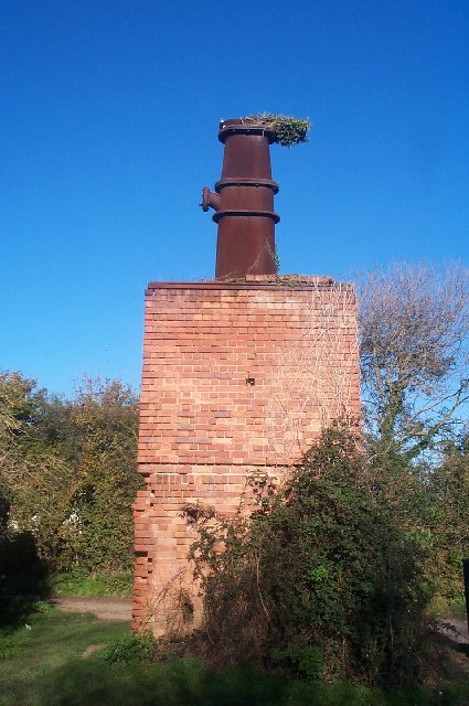 Old brick retort near Kilve beach This is the remains of an oil extractor built in the 1920's to process the oil rich shale in the cliffs. The ivy growing out of the stack has been shaped by the wind off the sea.